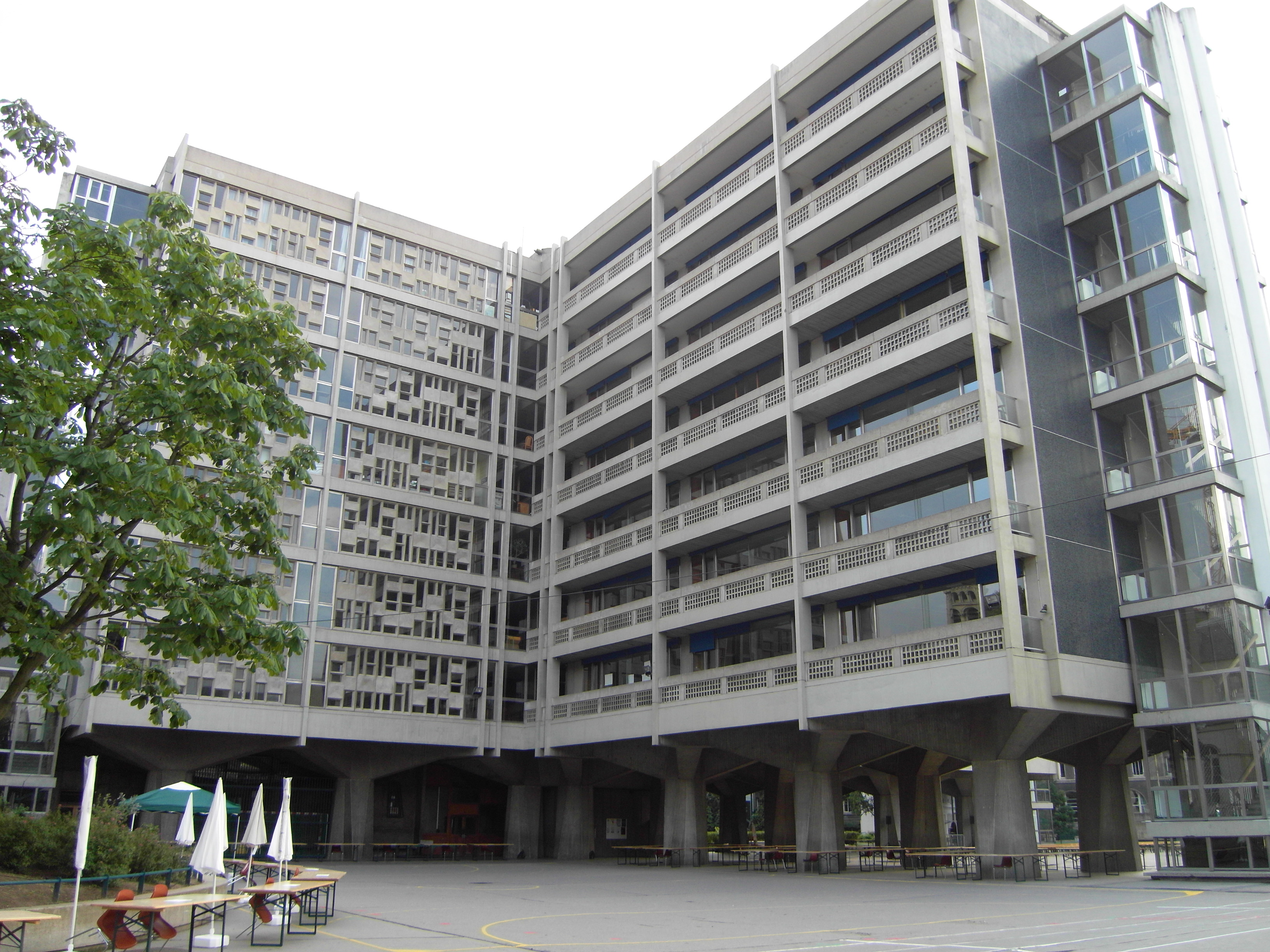 Stanislas catholic school, Paris